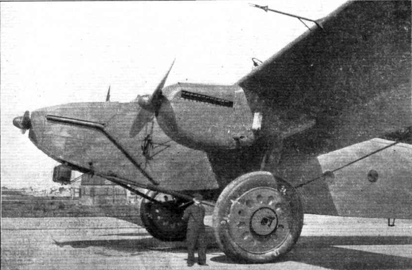 Beardmore Inflexible; front of aircraft